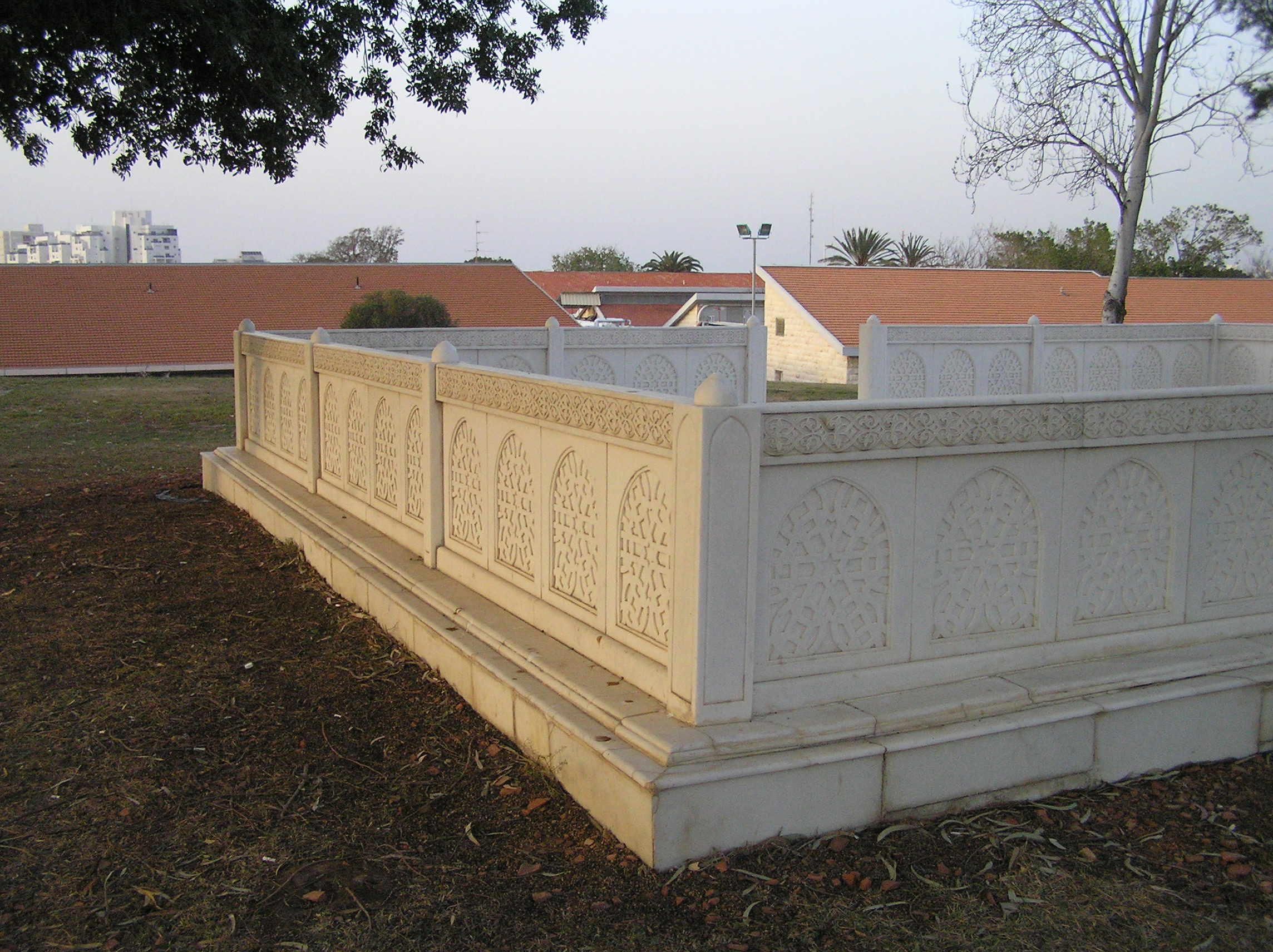 Barzilai Hospital, Ashkelon - Muslim praying site